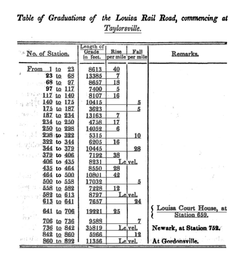 Louisa Rail Road, Table of Garduations, 1836